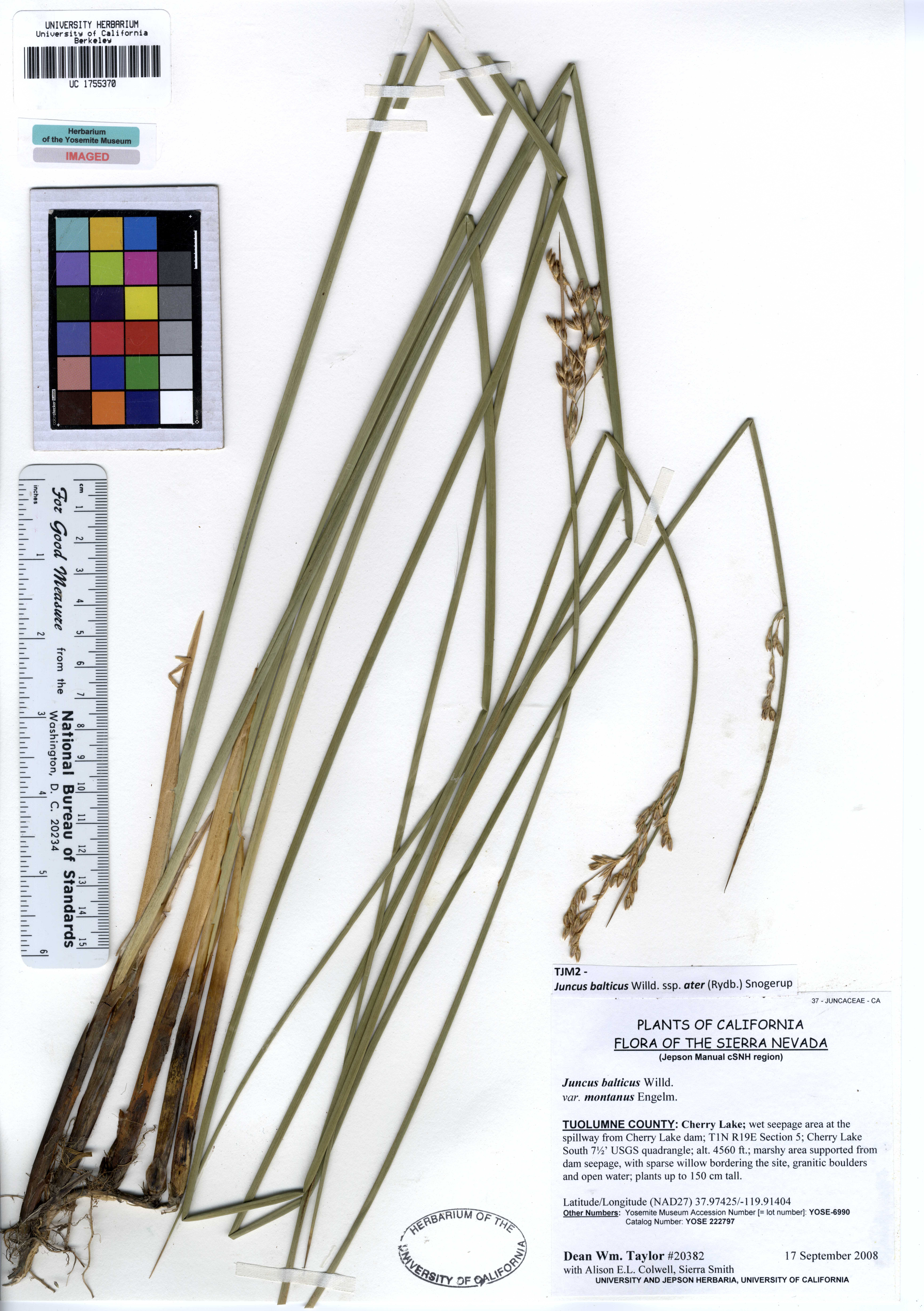 UC1755370 Juncus balticus ssp. ater